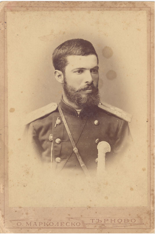 Senior lieutenant Anastas Vangelov (b. 1859), later Lieutenant colonel